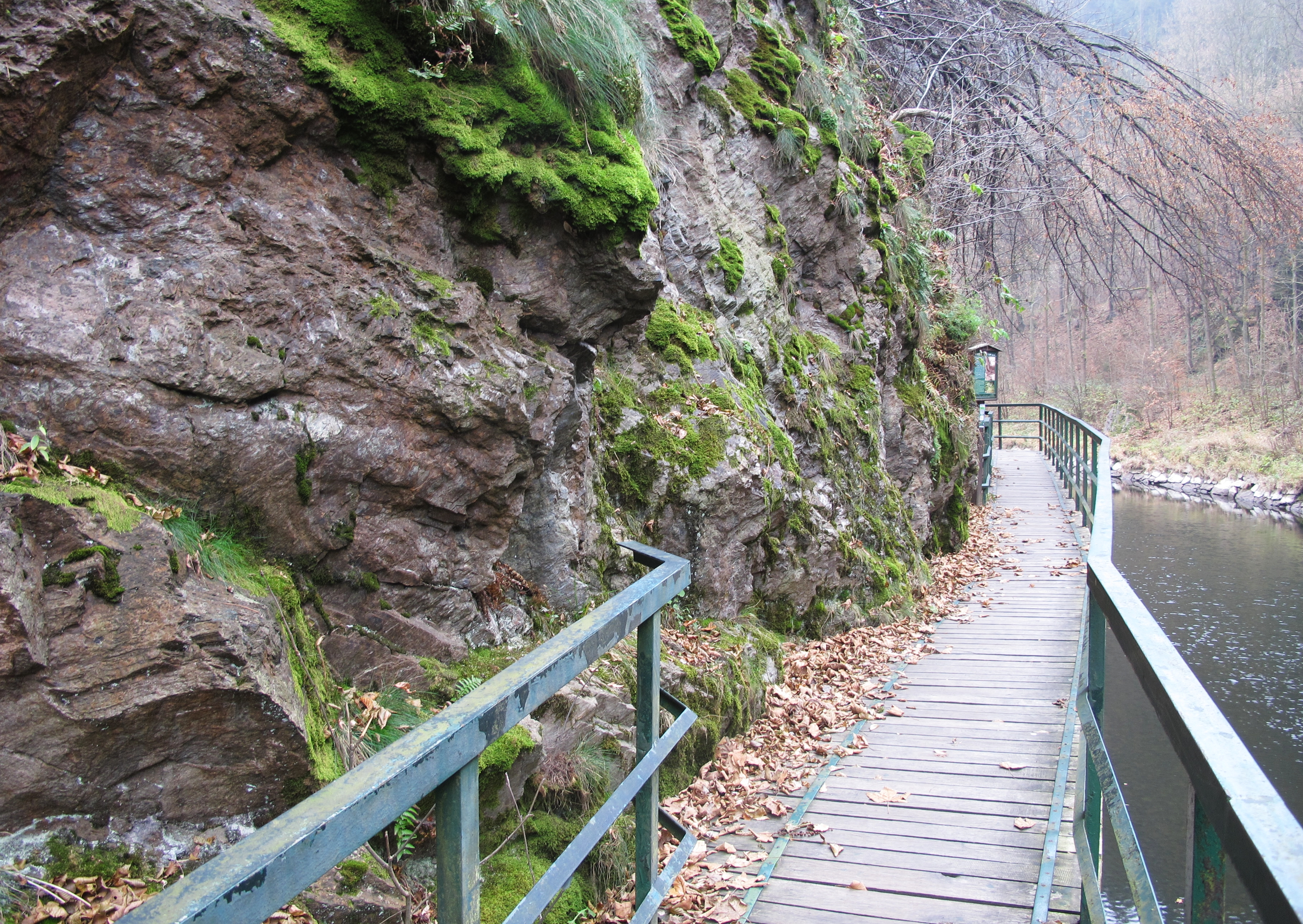 Natural monument Galerie near town Semily (in Semily District - Czech Republic)